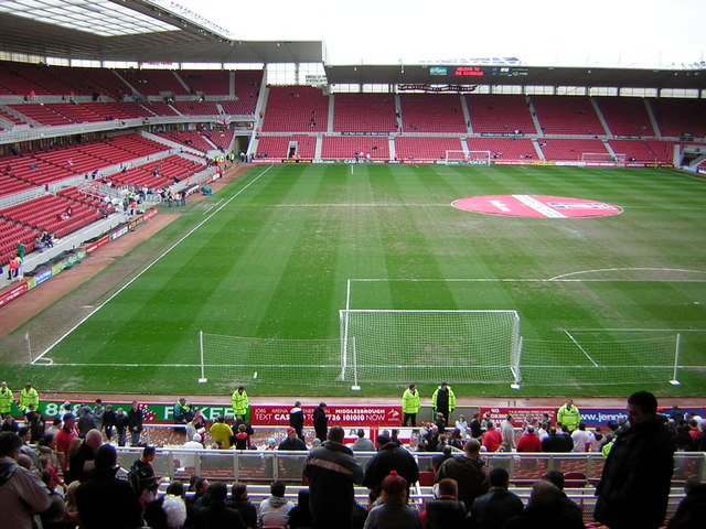 The Riverside Stadium, near to Middlesbrough, Great Britain. The Riverside Stadium, home of Middlesbrough FC.